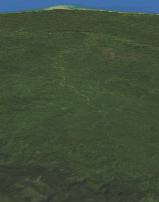 NASA World Wind image of Ok Tedi River